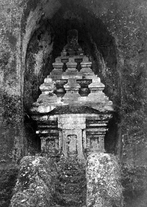 Gunung Kawi near Tampaksiring